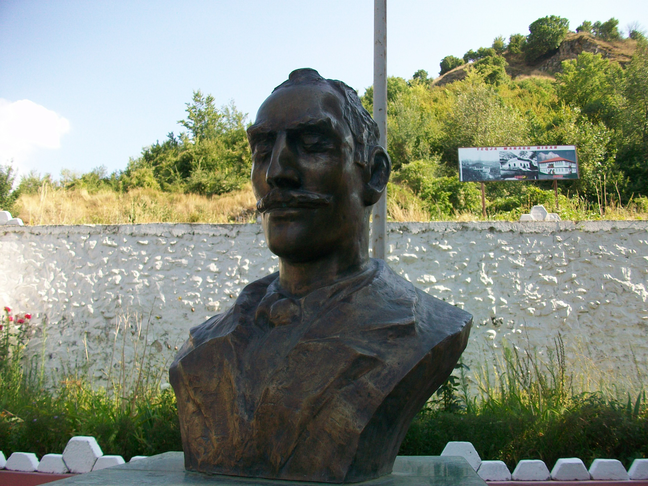 Pictures from Prizren Kosovo